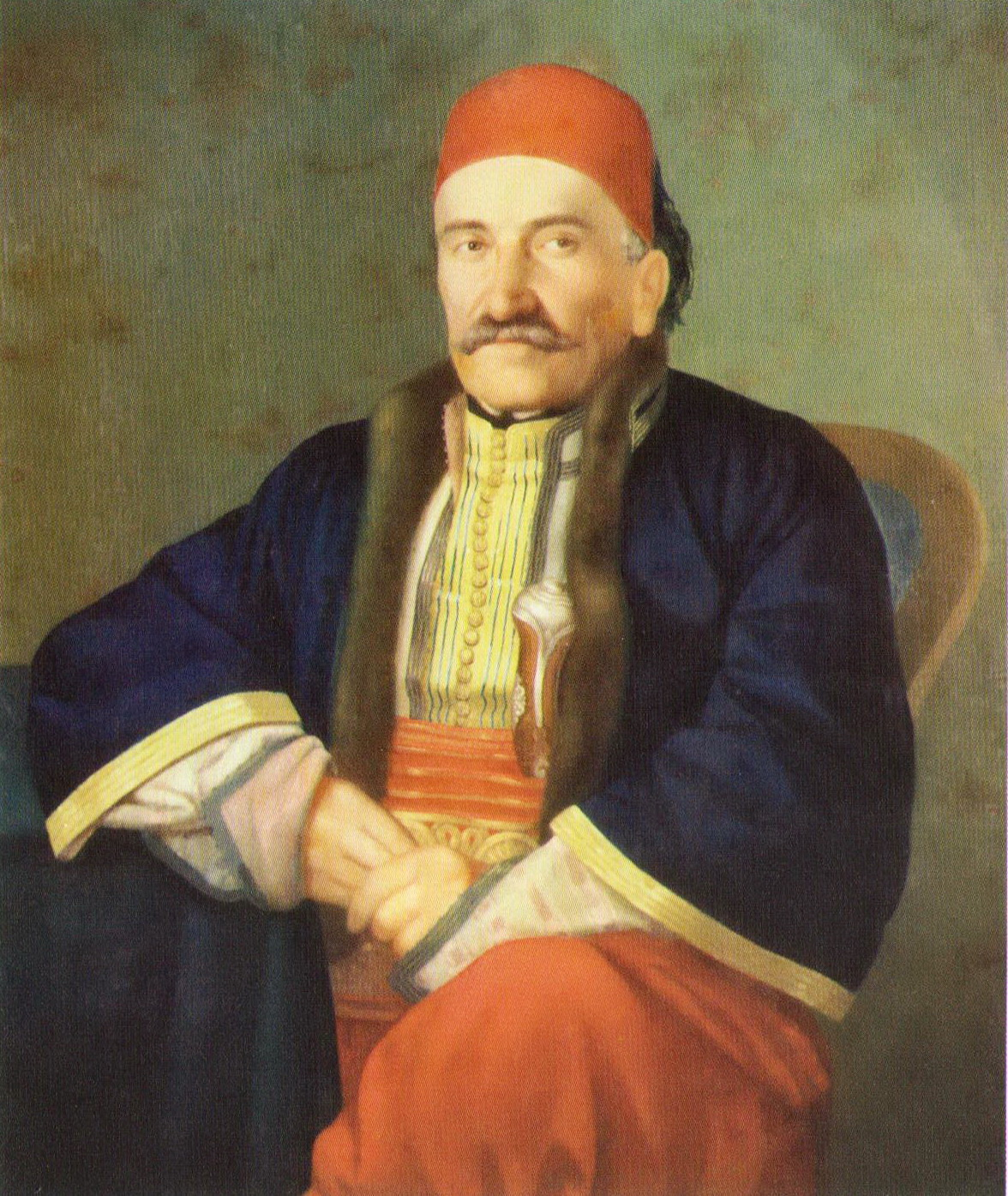 Toma Vučić Perišić